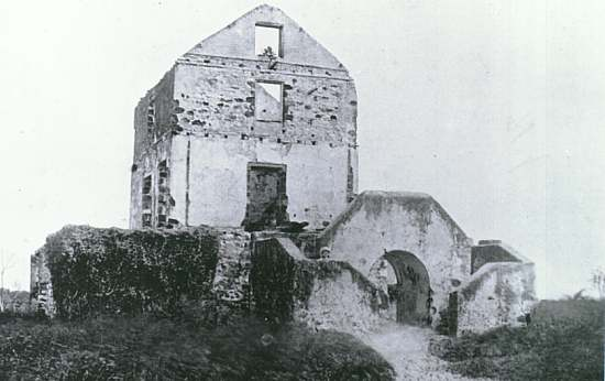 Pedro St. James, clearly stripped down, after years of neglect. Taken from the Cayman Islands National Archive Collection.